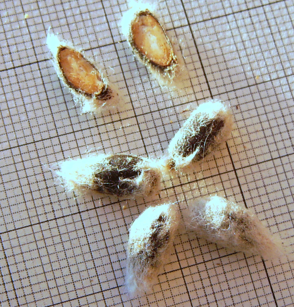 Coton seeds (Species:Gossypium hirsutum), Cross section on top, Barcelona, Spain